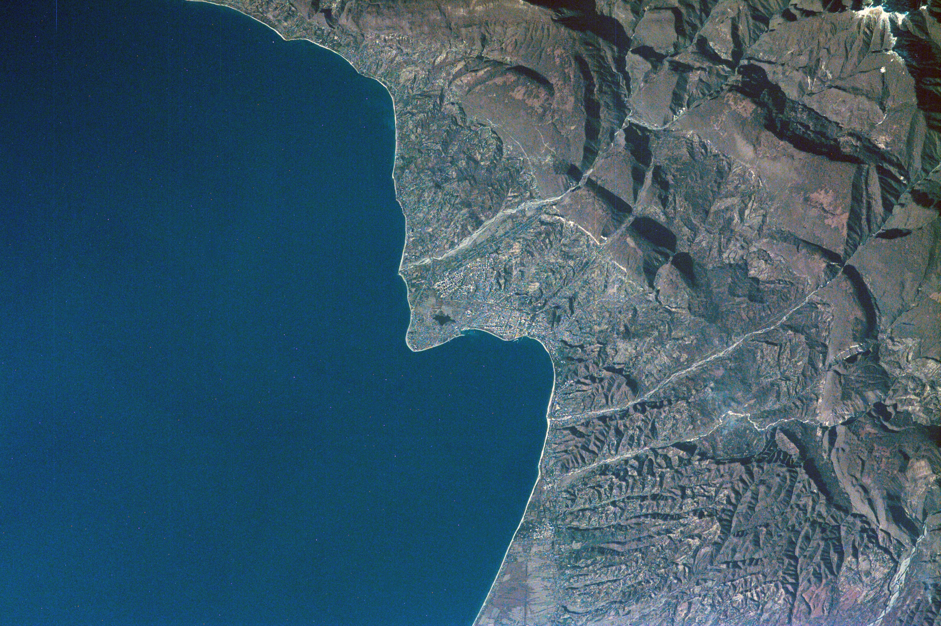 Satellite picture of Suhumi, from the German wikipedia, description there: ISS picture of Sukhumi, Abkhasia, Georgia